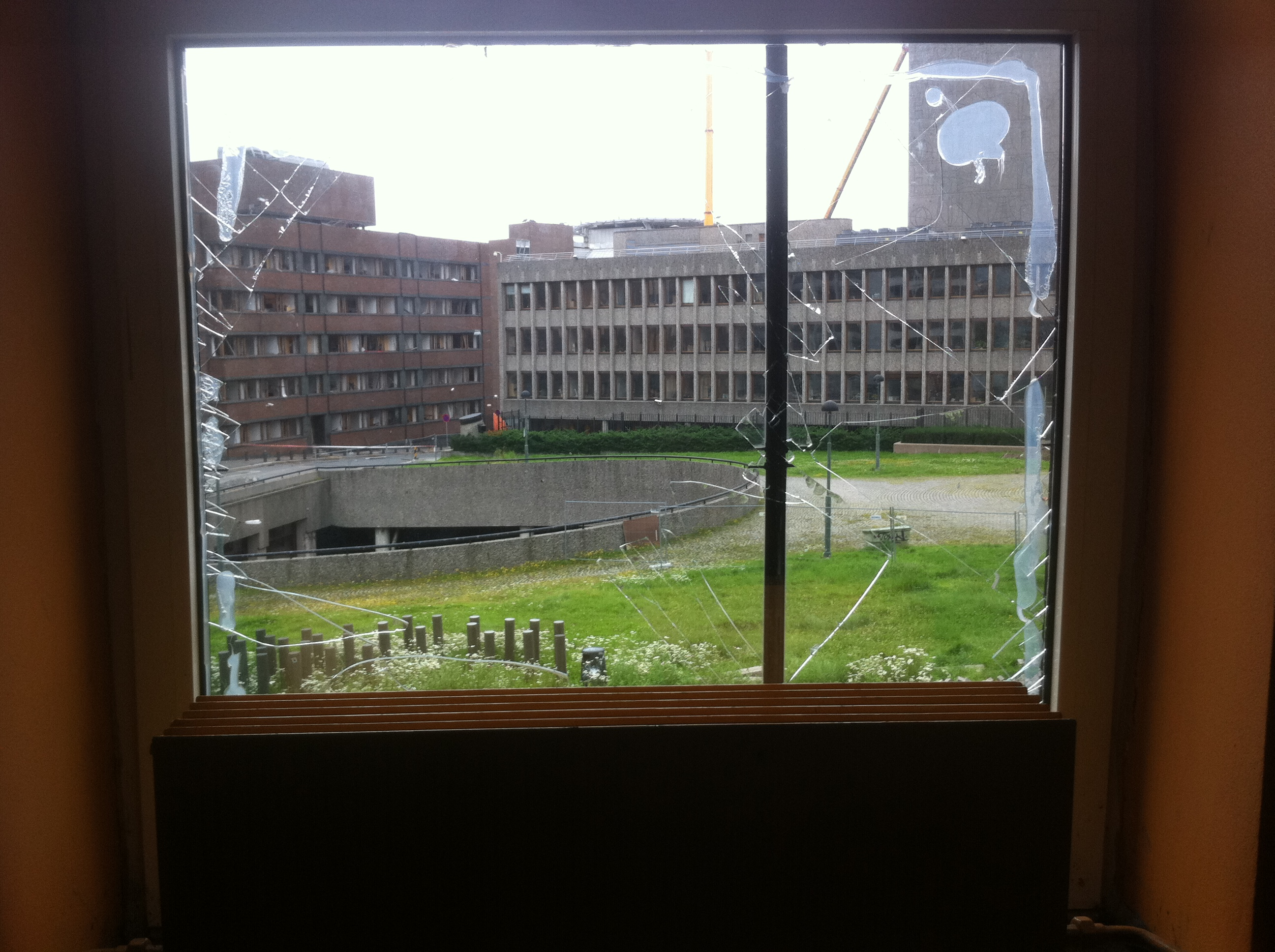 View through a broken window at Deichmanske main library in Oslo after the 2011 Norway attacks